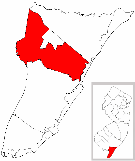 Map of Cape May County highlighting Dennis Township